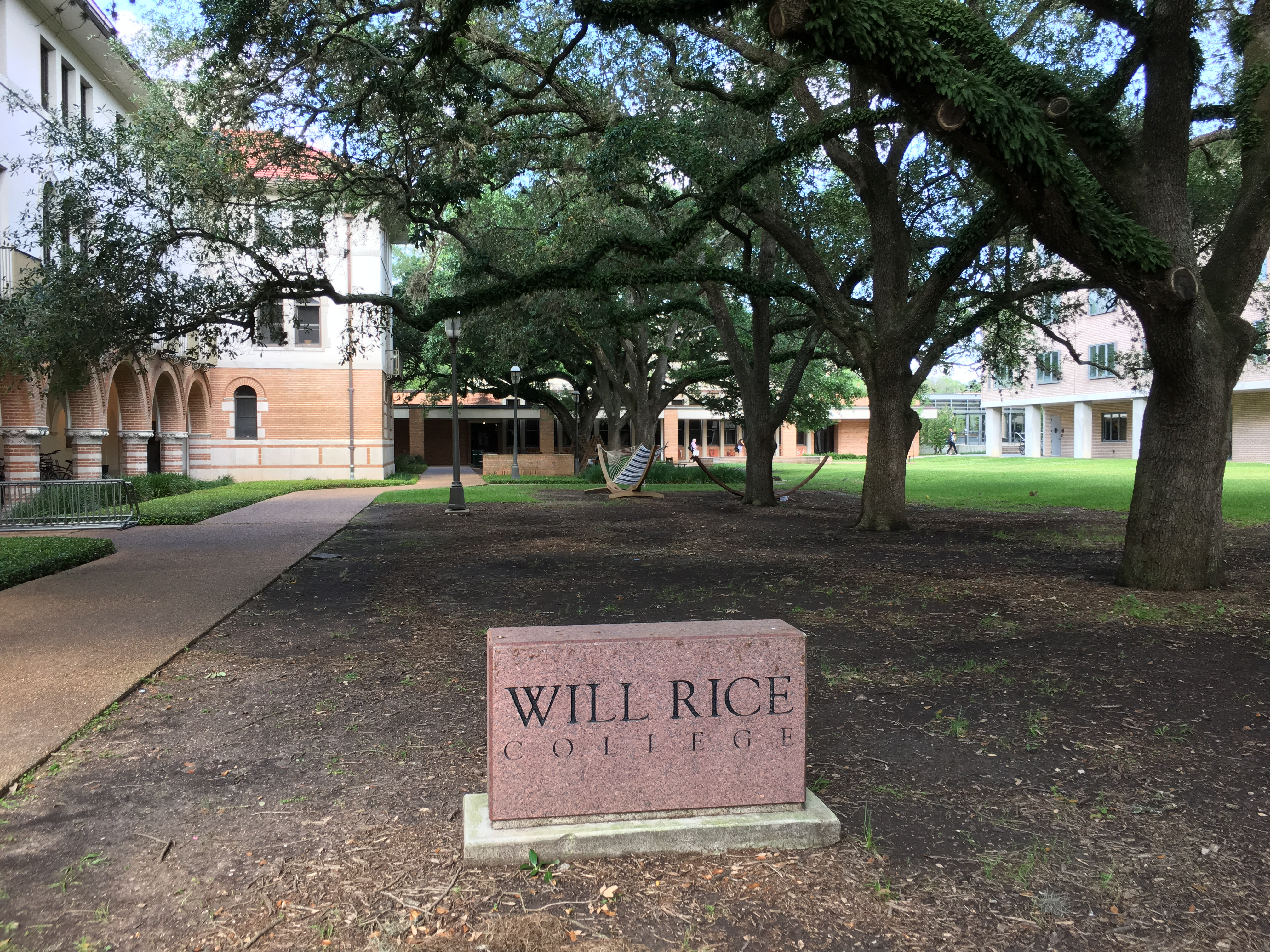 Will Rice College at Rice University, with Old Dorm at left, the commons building at center, and the quadrangle and New Dorm at right.